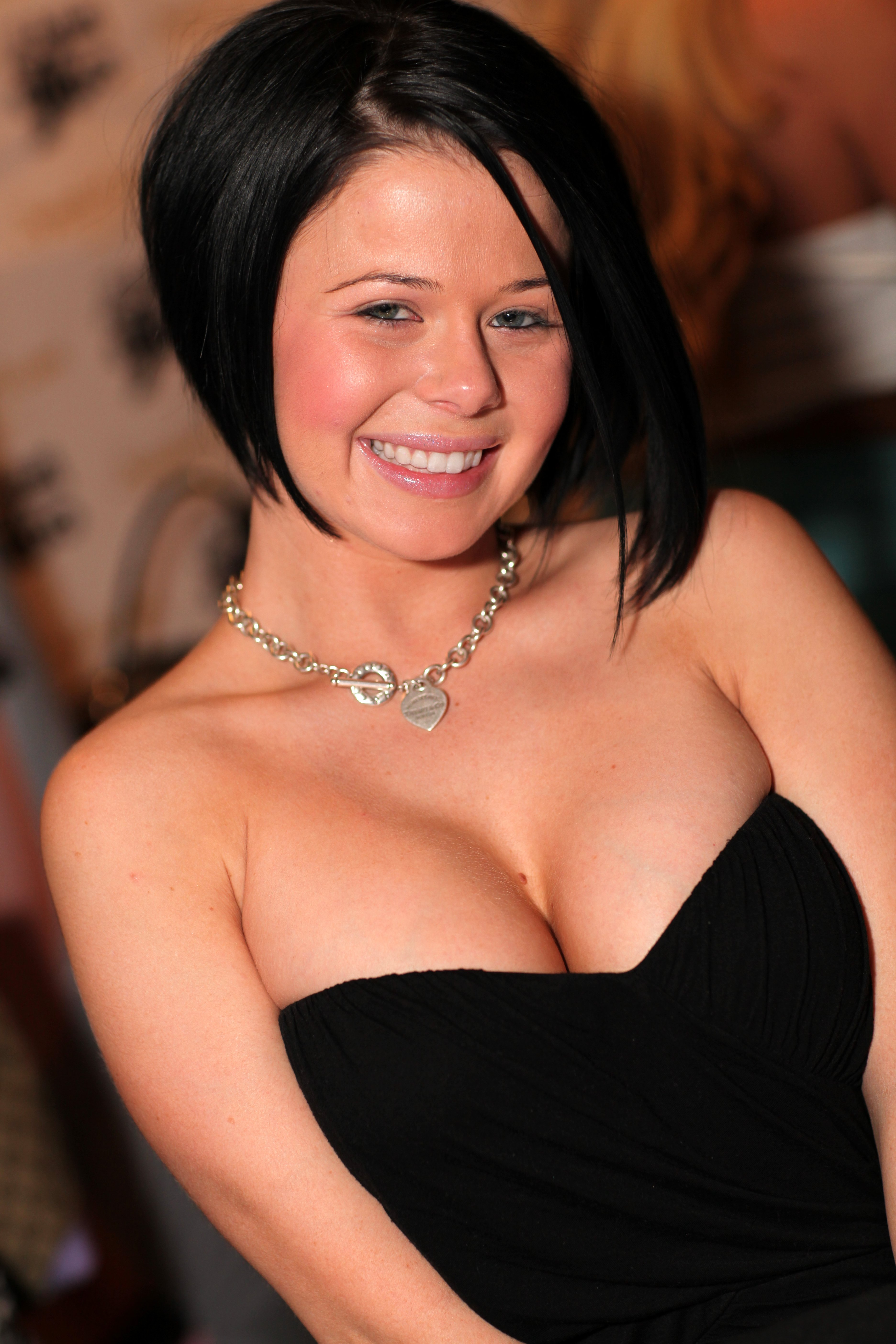 Loni Evans Photos from the 2013 AVN Expo & AVN Awards held at the Hard Rock Hotel & Casino in Las Vegas. Photo by Michael Dorausch. Please do tweet these photos but don't remove my copyright info without asking. This photo is licensed under a Creative Commons license. If you use this photo within the terms of the license or make special arrangements to use the photo, please list the photo credit as "Michael Dorausch" and link the credit to .